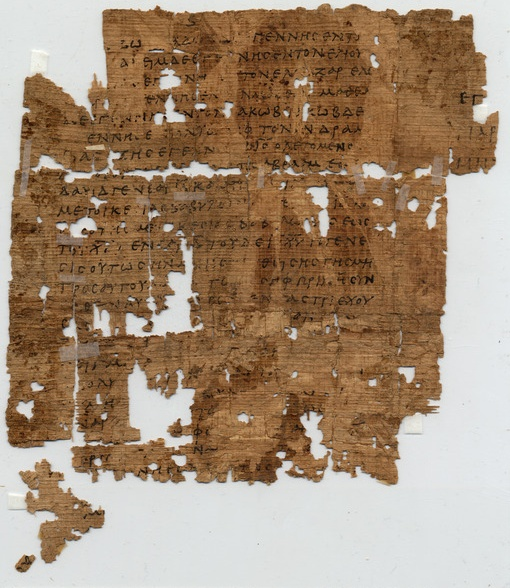 Papyrus 1 - recto Papyrus Oxyrhynchus 2 University of Pennsylvania Museum, E2746 3rd century